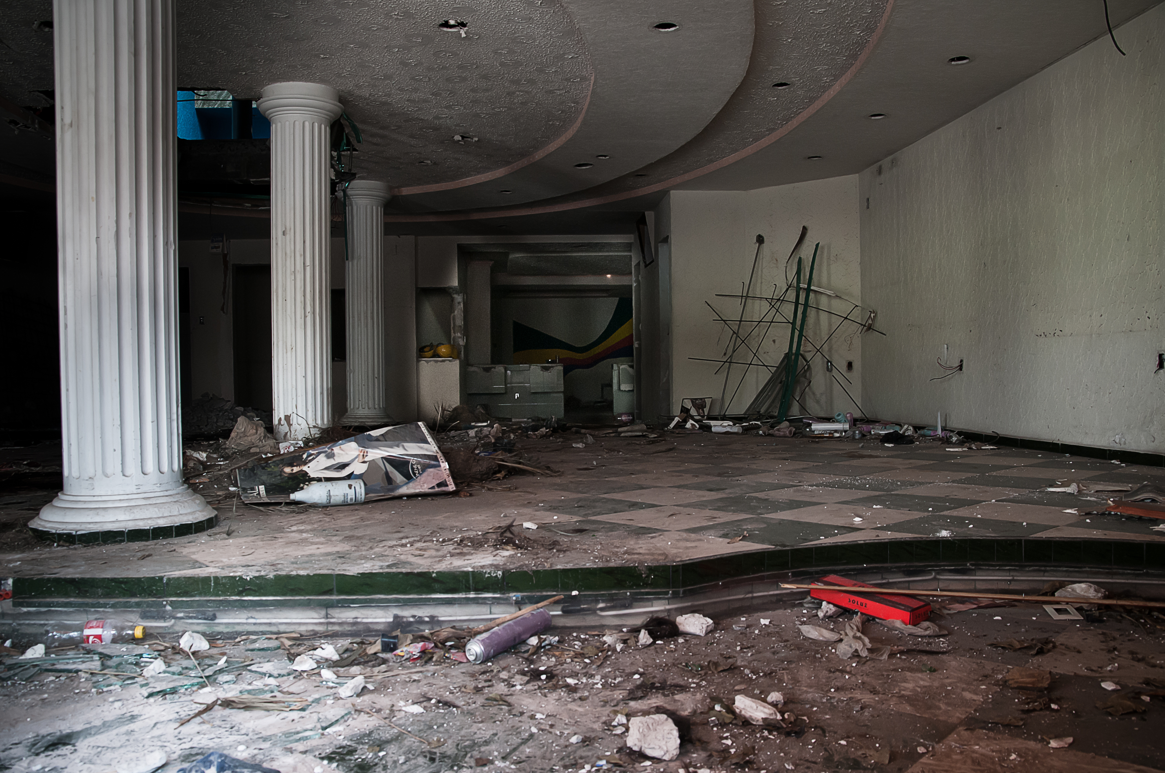 Casi 3 años después, el tristemente célebre "News Divine", en la delegación Gustavo A. Madero, será demolido para dar paso al Centro Cultural "Galeón".